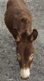 Example of Medium quality (Q50) JPEG compression. Photo by David Crawshaw.